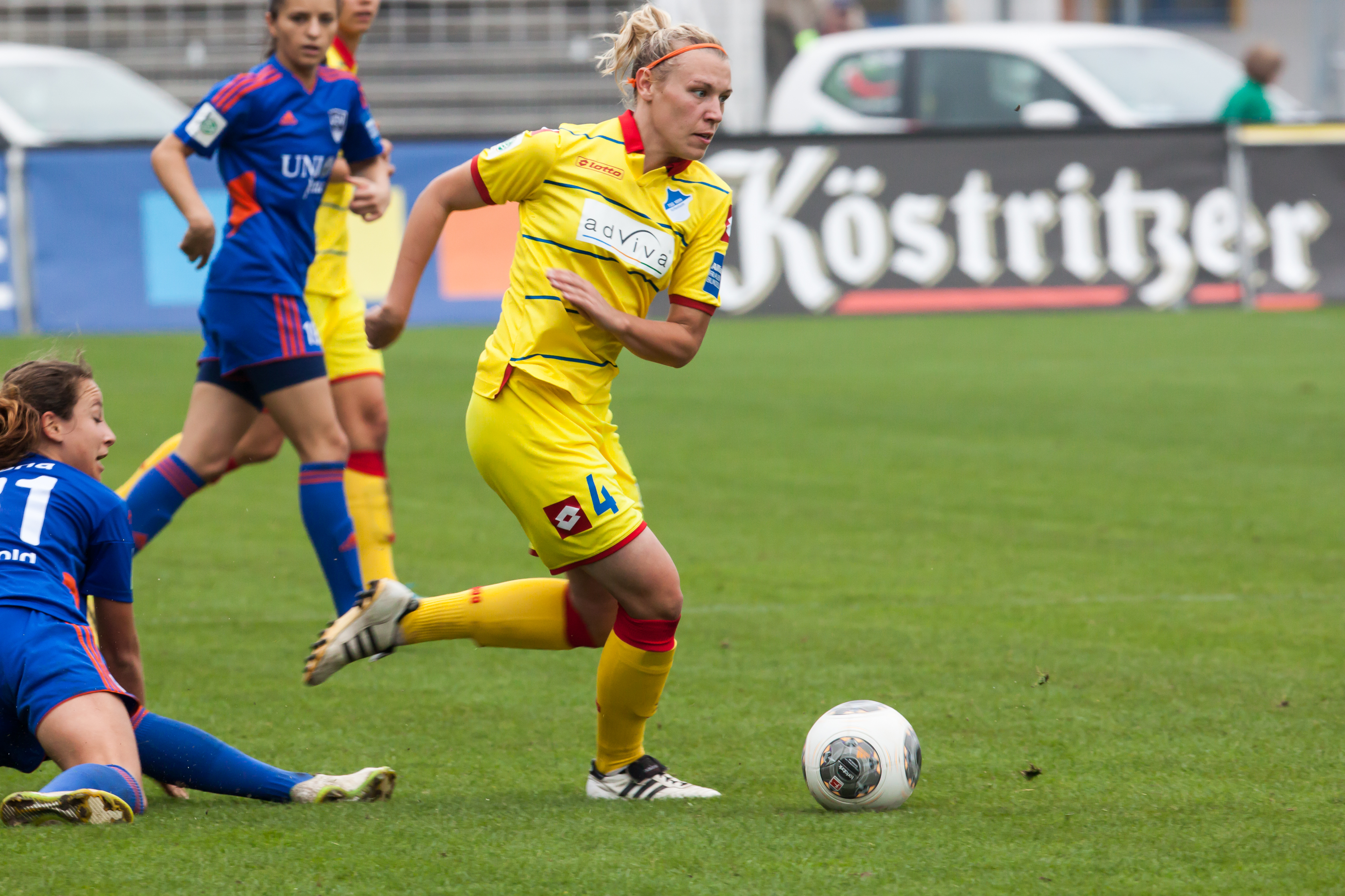 German Women Bundesliga soccer game: FF USV Jena vs. TSG 1899 Hoffenheim, 2014-10-11, at Ernst-Abbe-Sportfeld Jena.